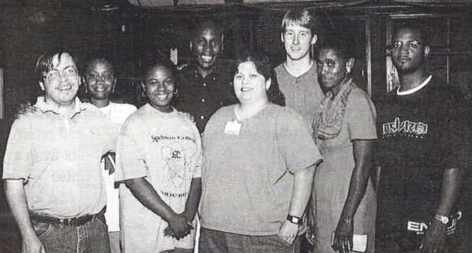 SEICA Graduate Interns - Summer 1998. L to R: Frank West, LaVerne Chambers, Stacy Nicholls, Luther Lighty, Christine Mouser, Daniel Rapczynski, Program Director Dr. Joan Langdon, and Amad Jones.